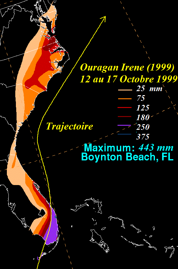 Storm total rainfall map of Hurricane Irene during October 1999.